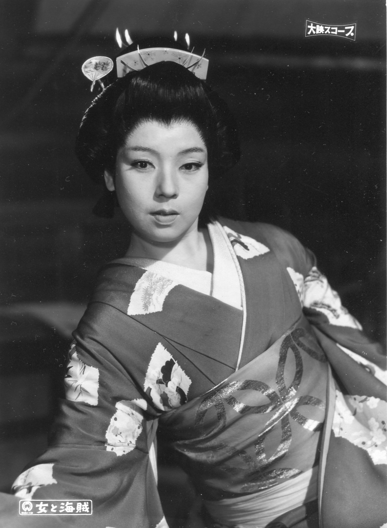 Machiko Kyō in "Onna to kaizoku" (1959) - publicity still